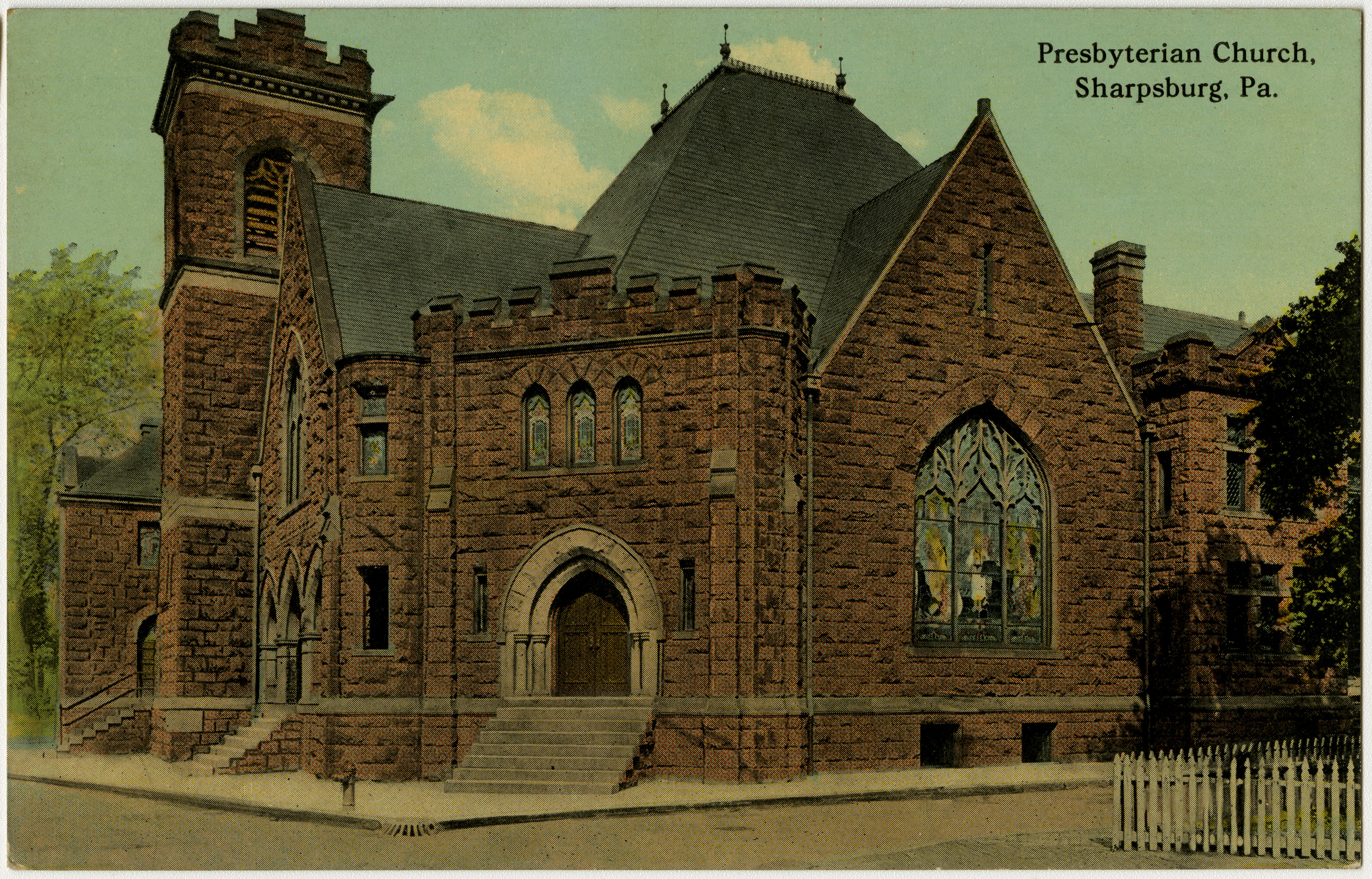 Presbyterian church in Sharpesburg, Pennsylvania from a pre-1923 postcard From RG 428, Postcard Collection, Presbyterian Historical Society, Philadelphia, Pennsylvania.